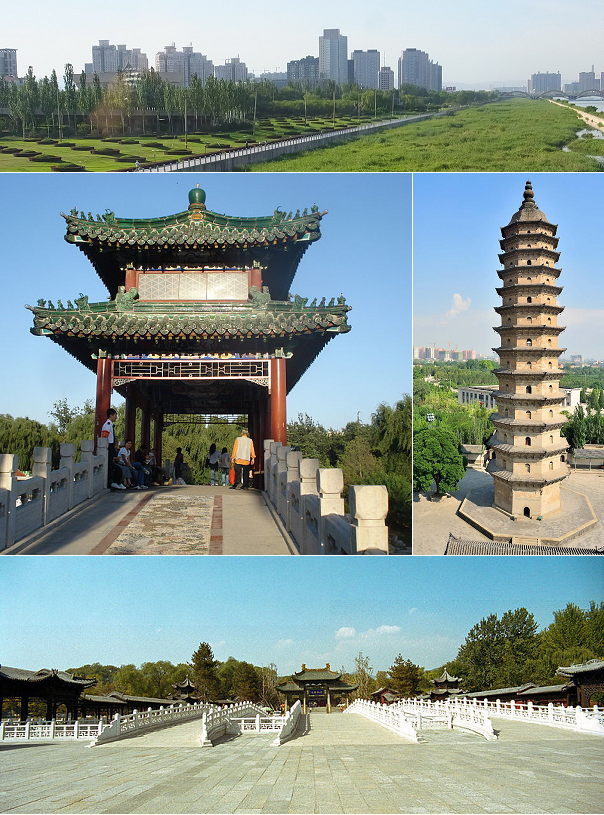 Taiyuan, capital of Shanxi province, China. Clockwise from top: Longtan Park, The east pagoda in Twin Pagoda Temple, Jinci Temple.